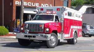 picture of HAZMAT 1 responding to incident